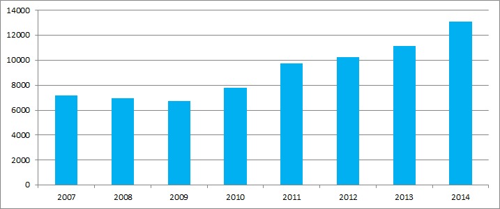 Wind power generation in Denmark, in GWh by year.